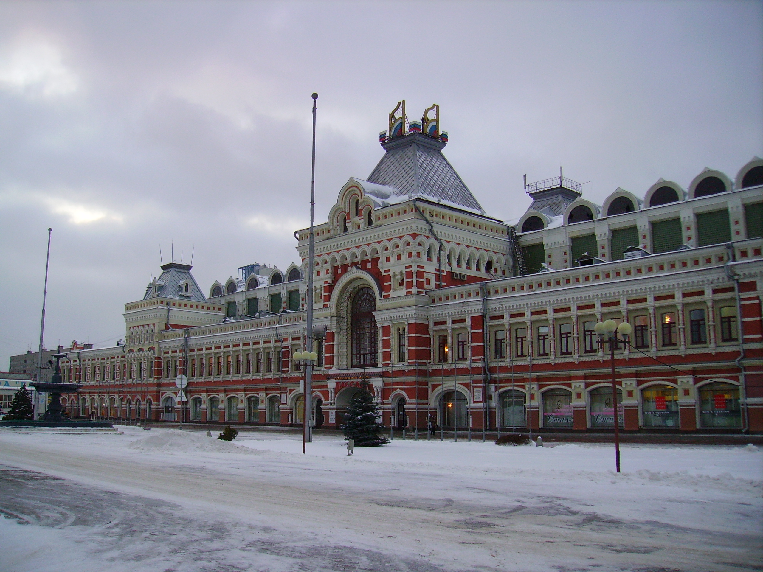 Nizhny Novgorod Fair. Main Fair Building.